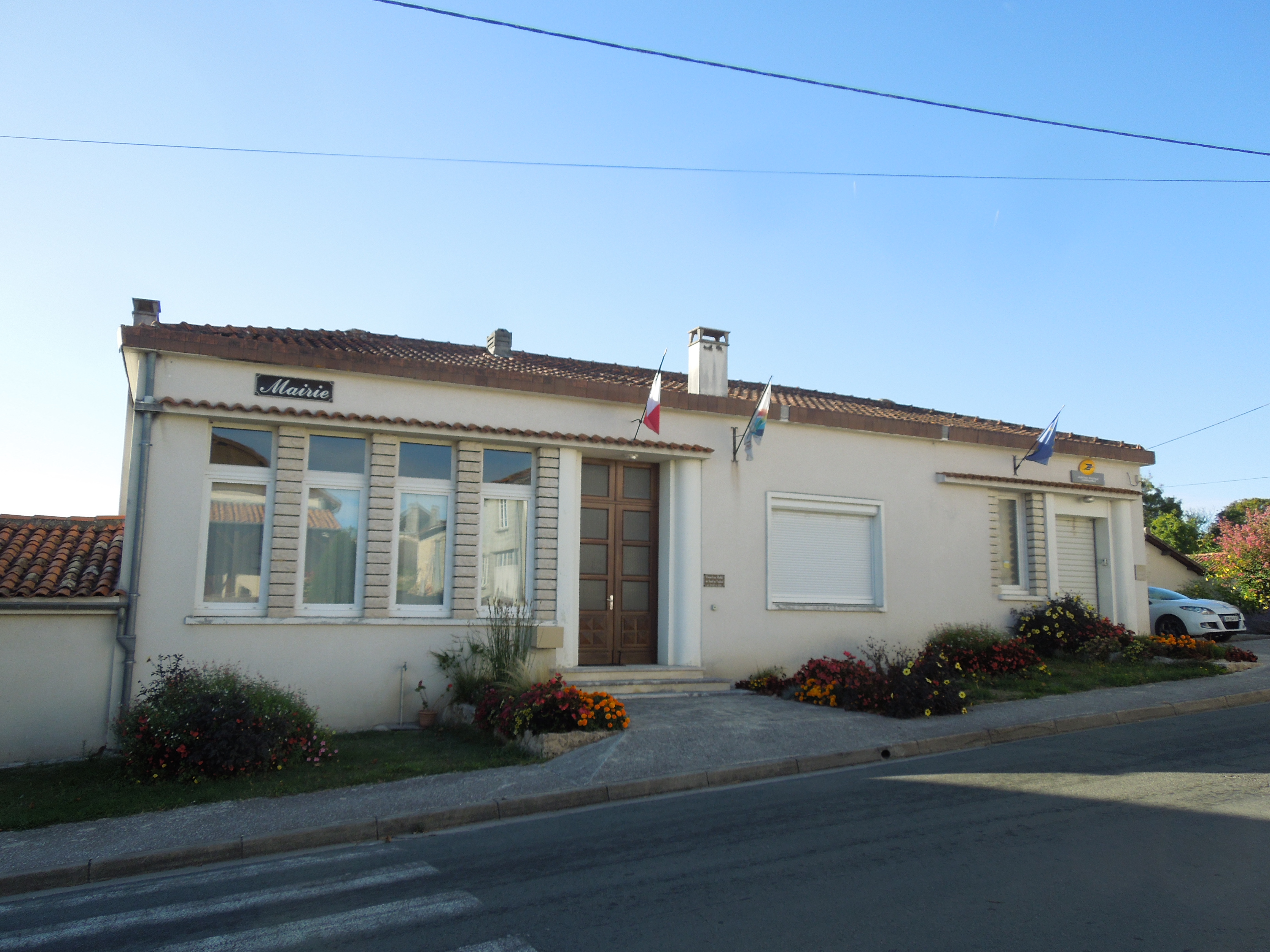 Saint-Maigrin, town hall and post office